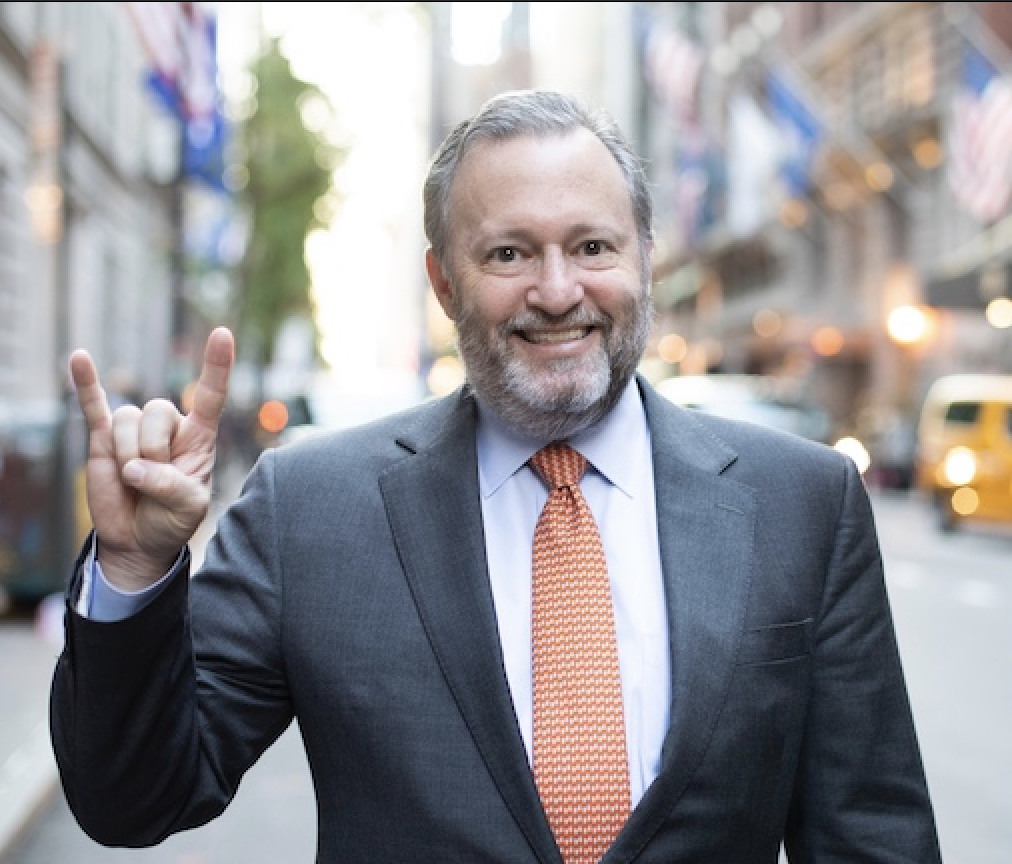 Jay Bernhardt visiting the UT in New York (UTNY) program in December of 2019.